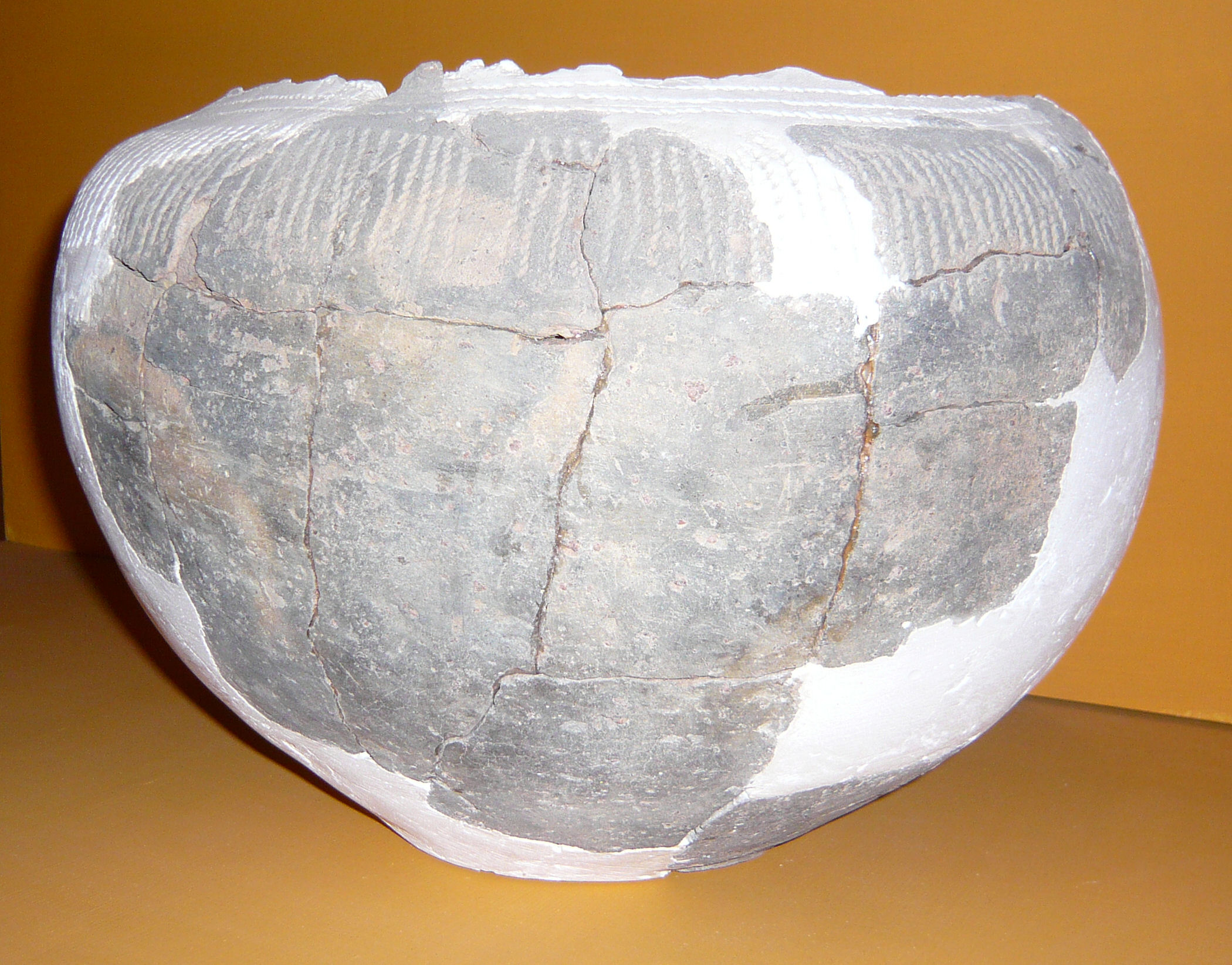 Corded Ware culture Krasnystaw Polnad